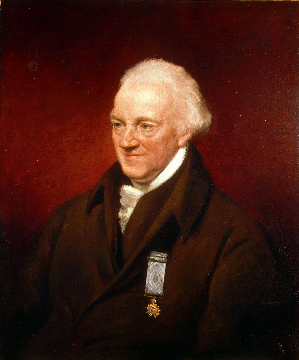 William Herschel (1738-1822)